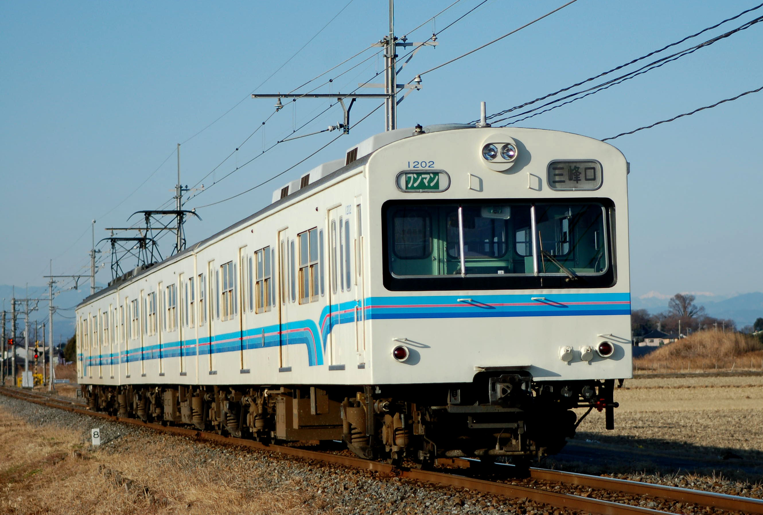 Chichibu Railway 1000 series EMU set 1002 on a Chichibu Main Line service to Mitsumineguchi